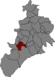 Location of Vilanova d'Escornalbou in Baix Camp